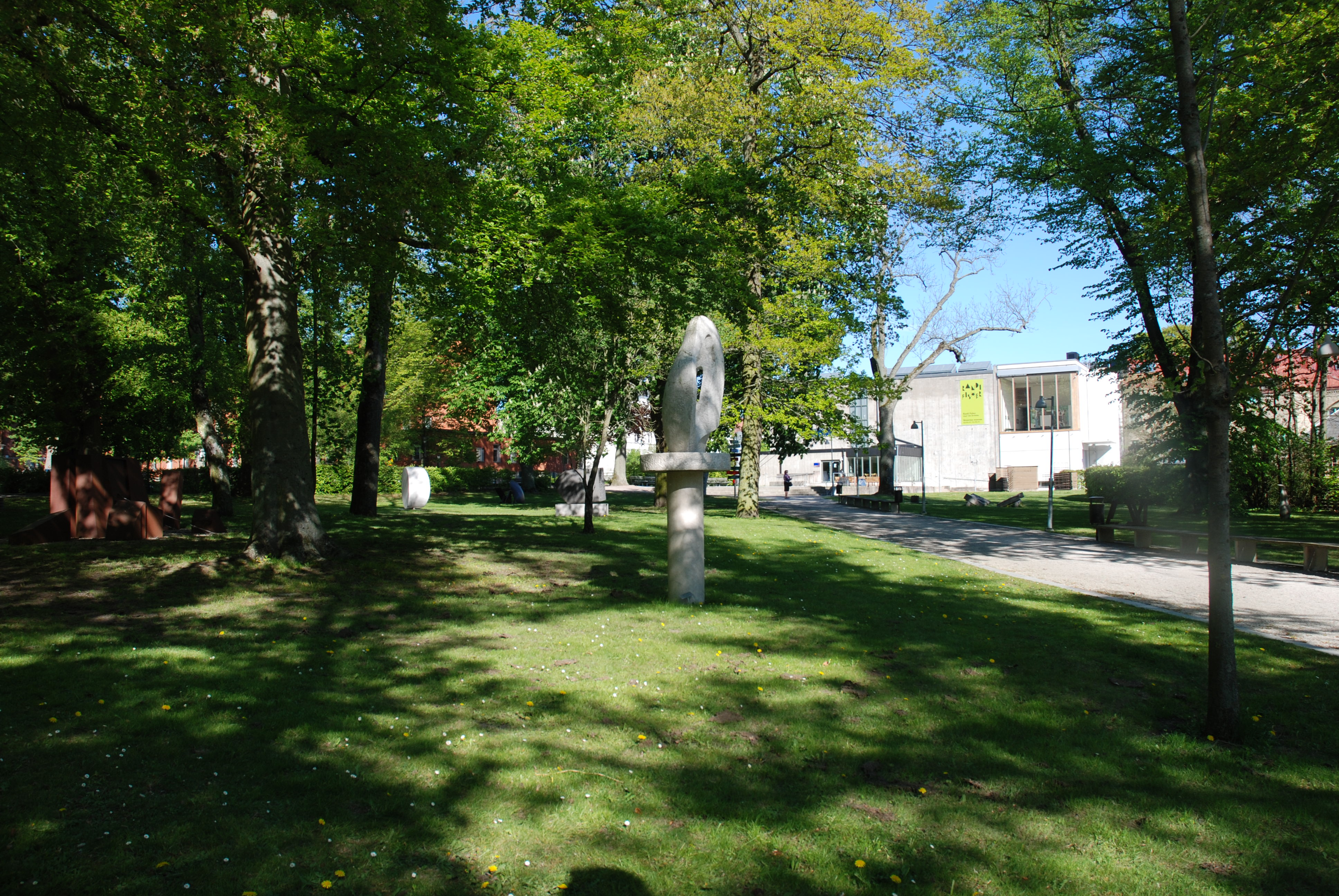 Sculpture park of Skissernas Museum, Lund, Sweden